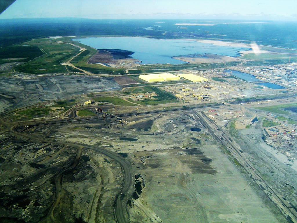 This is a picture of Syncrude's base mine. The yellow structures are the bases of pyramids made of sulphur - it is not economical for Syncrude to sell the sulphur so it stockpiles it instead. Behind that is the tailings pond, held in by what is recognized as the largest dam in the world. The extraction plant is just to the right of this photograph and most of the mine is to the left.